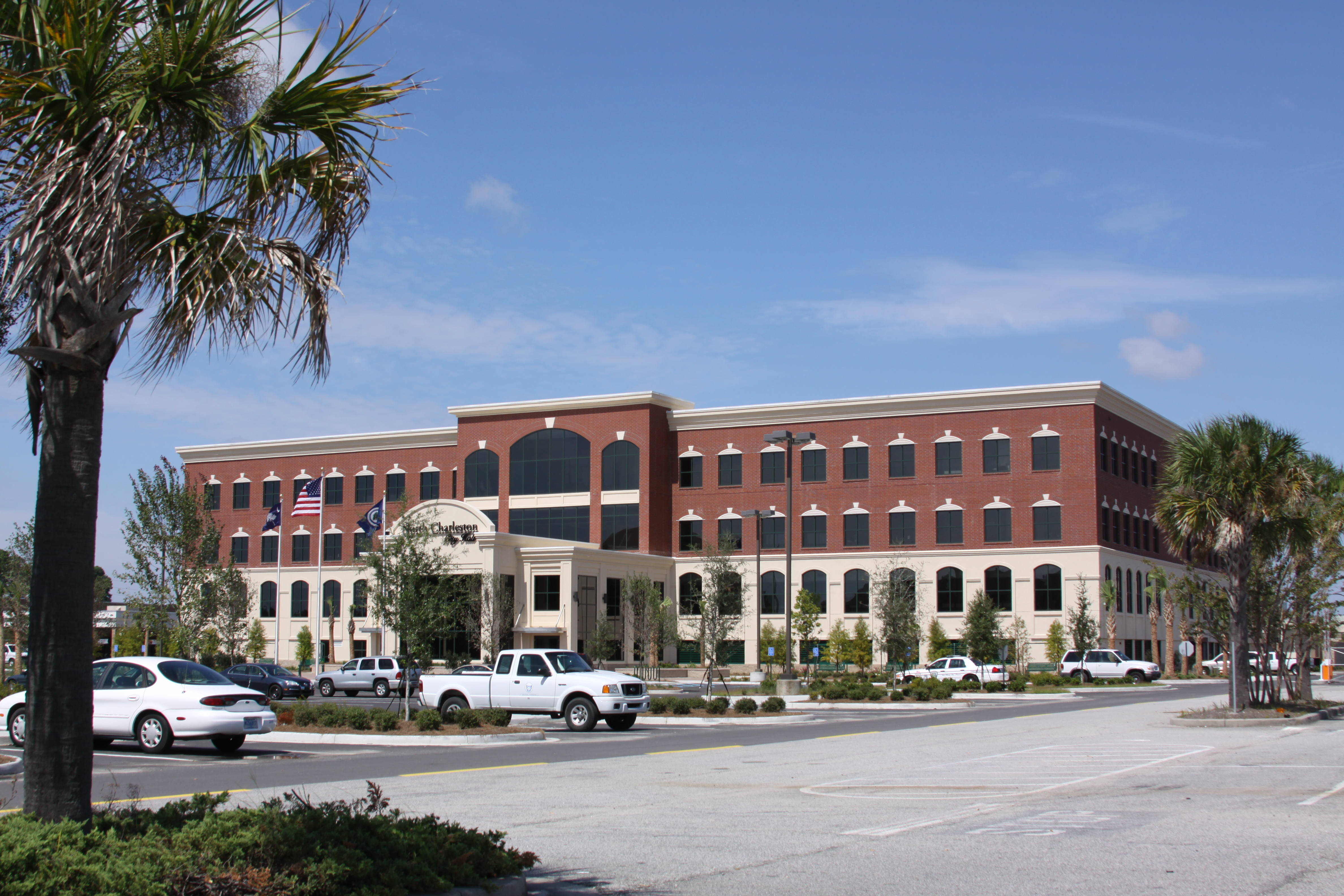 The new City Of North Charleston City Hall. It opened in 2009.